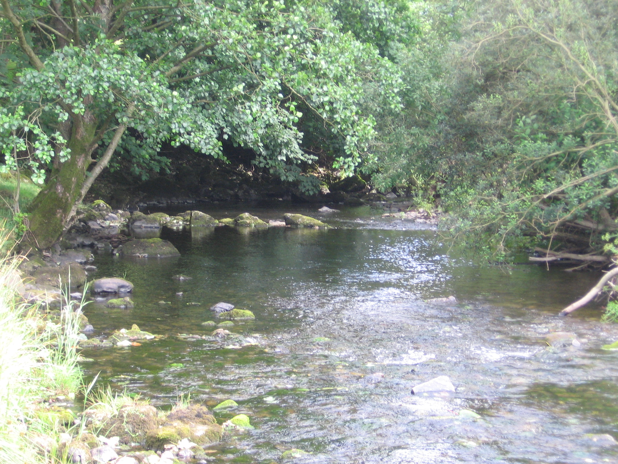 The River Kent, near its source in the Kentmere valley, taken at Low Elfhowe roughly 300 yards north of Scroggs Bridge and 1 mile north of Staveley village. Author Peter Moore, self-made image